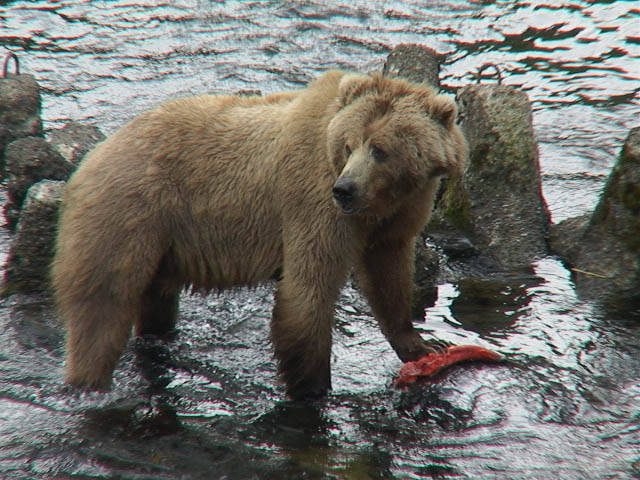 Kodiak Bear with salmon at Frazer Fish Pass on Kodiak Island.